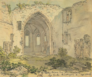 Interior view of the Frauenkirche Unterriexingen from April 1816